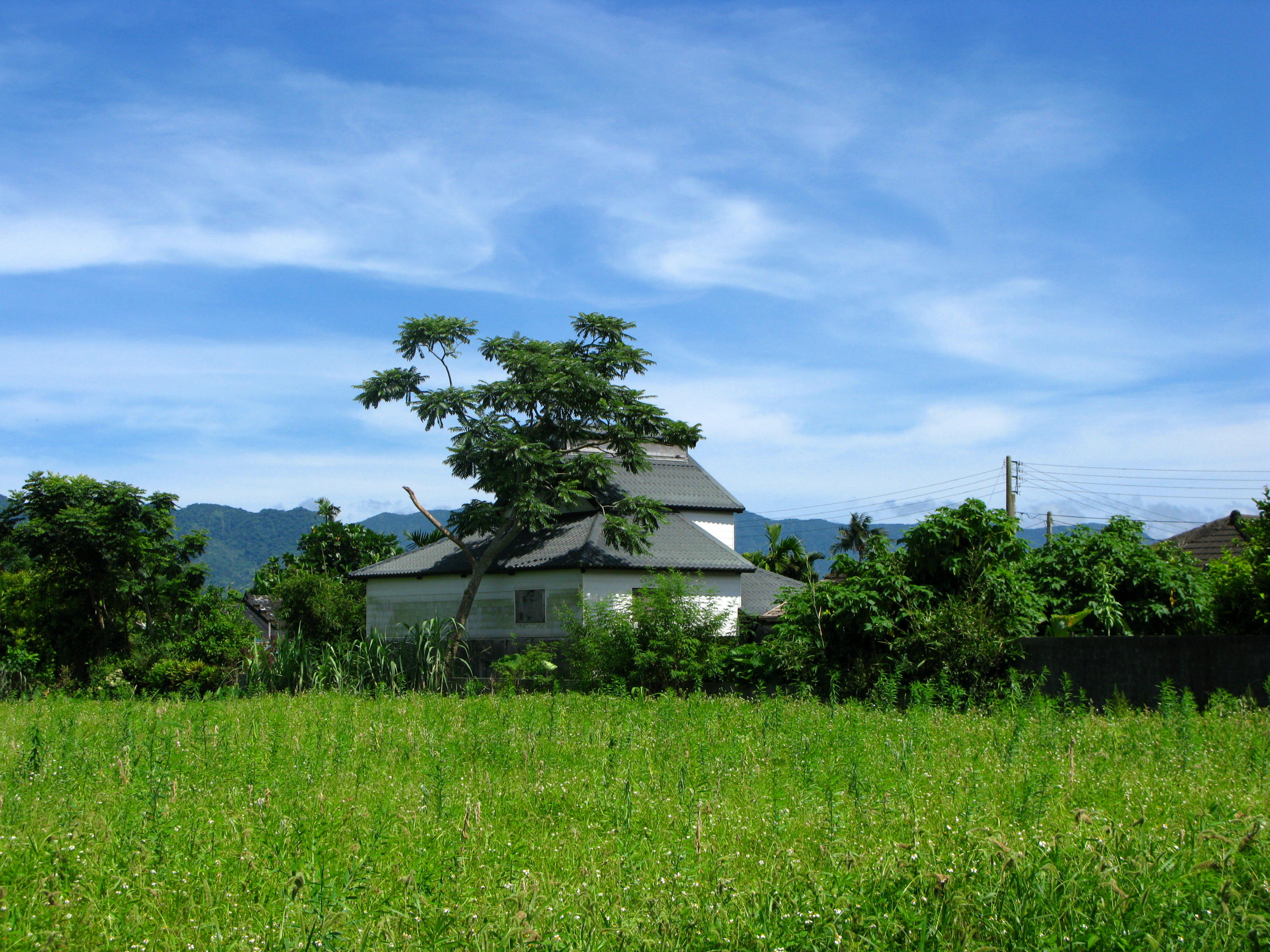 Cigarettes Building，Taiwan.